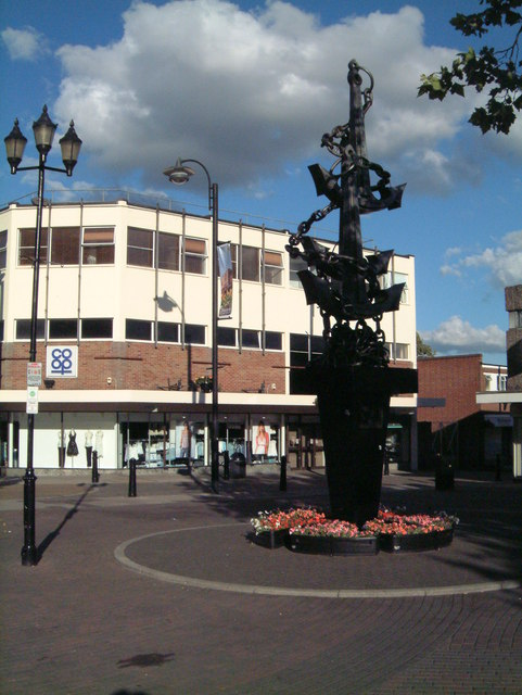 Able Seaman, Colin Grazier Memorial (1) This photograph shows the Memorial to Able Seaman Colin Grazier, who came from Tamworth and died in the service of his Country in World War 2, while serving in the Royal Navy aboard, H.M.S. Petard. Able Seaman Colin Grazier along with, Lt Anthony Fasson and aided by the N.A.A.F.I Canteen assistant, 16 year old Tommy Brown recovered the Enigma machine and vital documents, vital to the breaking of the Enigma code from the U-Boat U559. Unfortunately, while attempting to recover more material the people mentioned above, perished when the U- Boat sank. Artwork by Walenty Pytel.